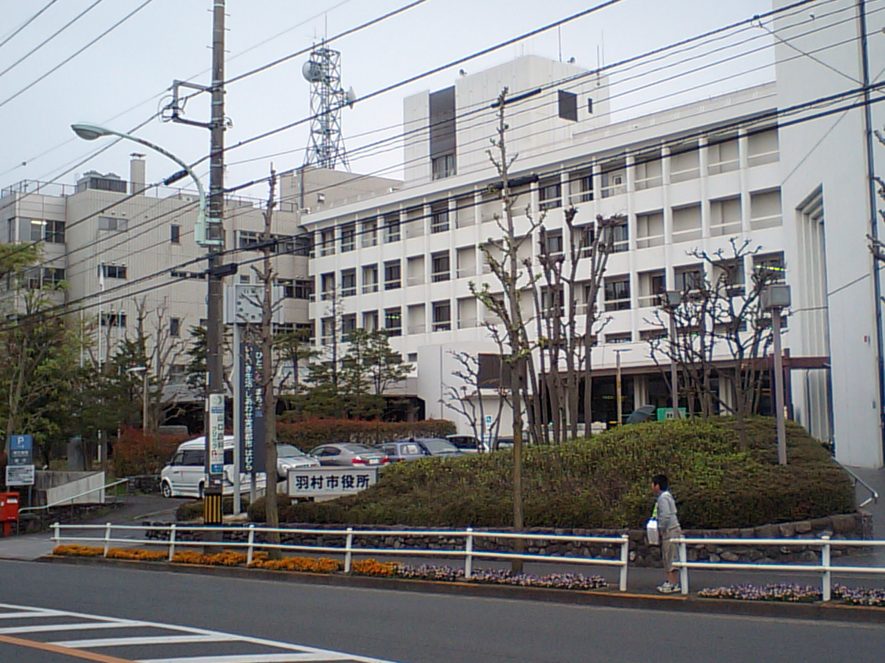 Hamura City Hall, Tokyo, Japan (羽村市役所 (東京都))